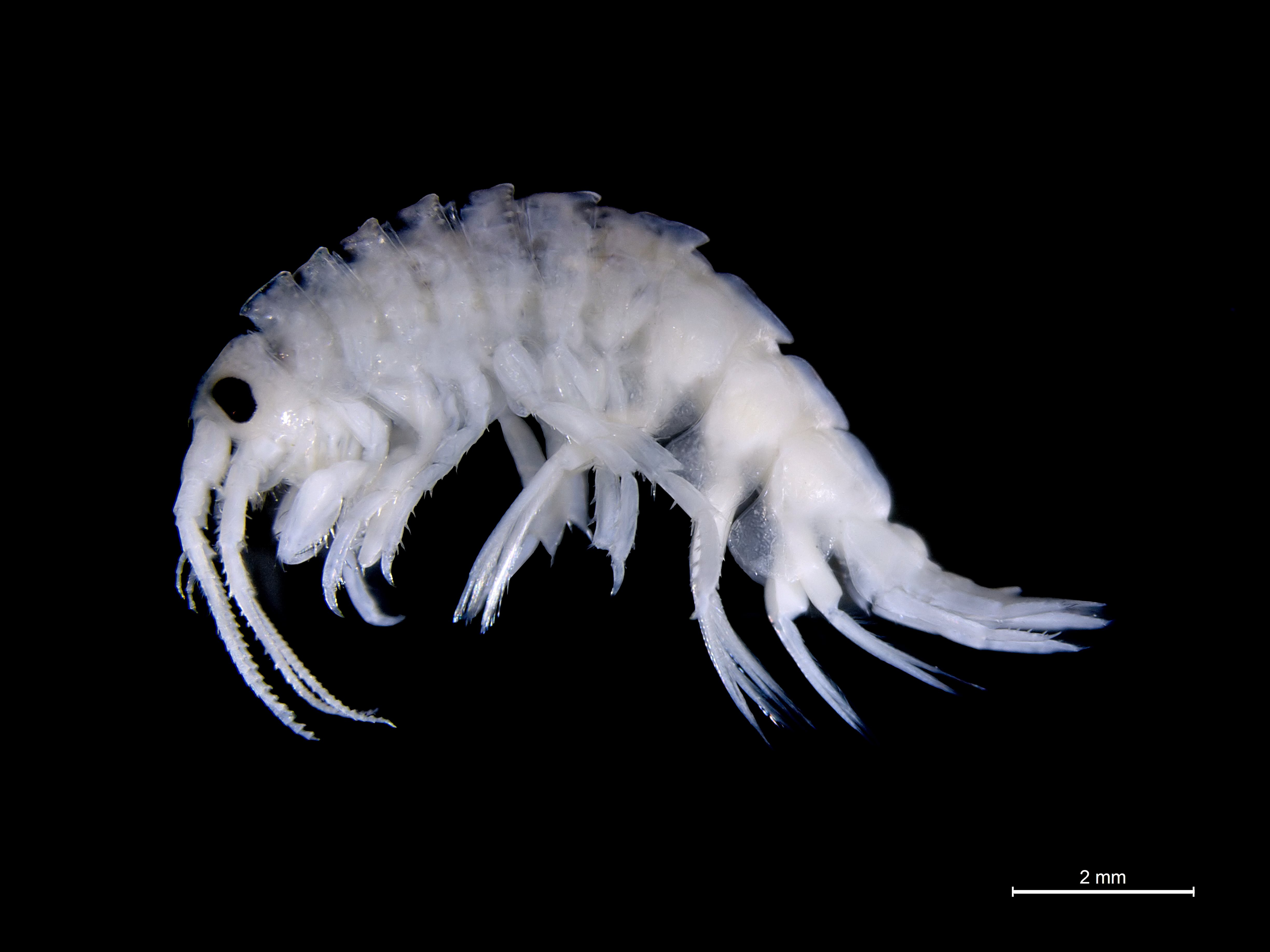 Benthic amphipod, taken with Leica DFC 490 camera mounted on a Leica M205C binocular microscope.North Sea.Length = ~10 mm